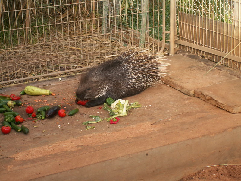 Crested Porcupine, photograph taken in the Tel Aviv University Zoo